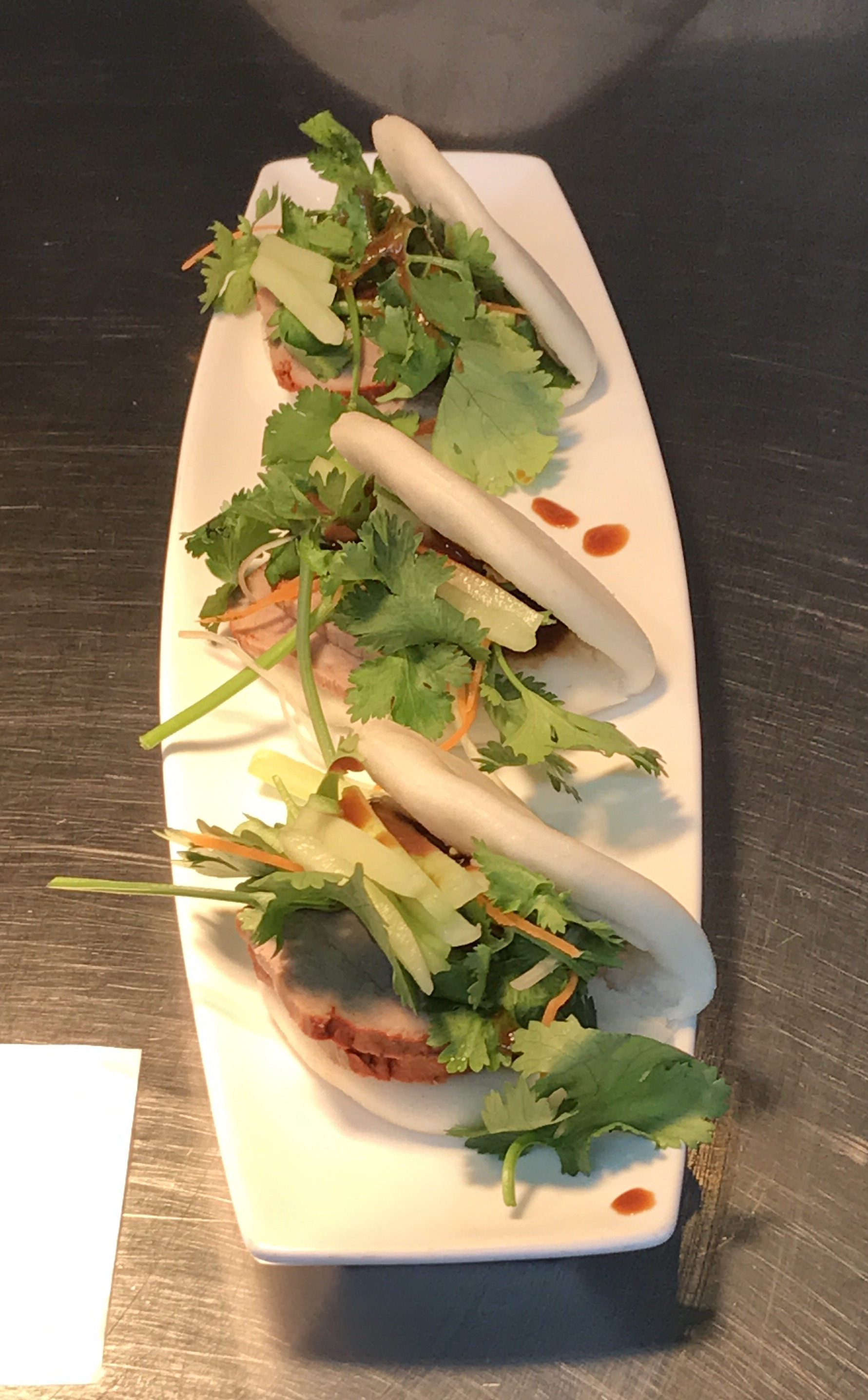 Jimmy's On the Mall duck slider